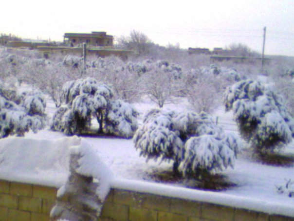 tal alnakah